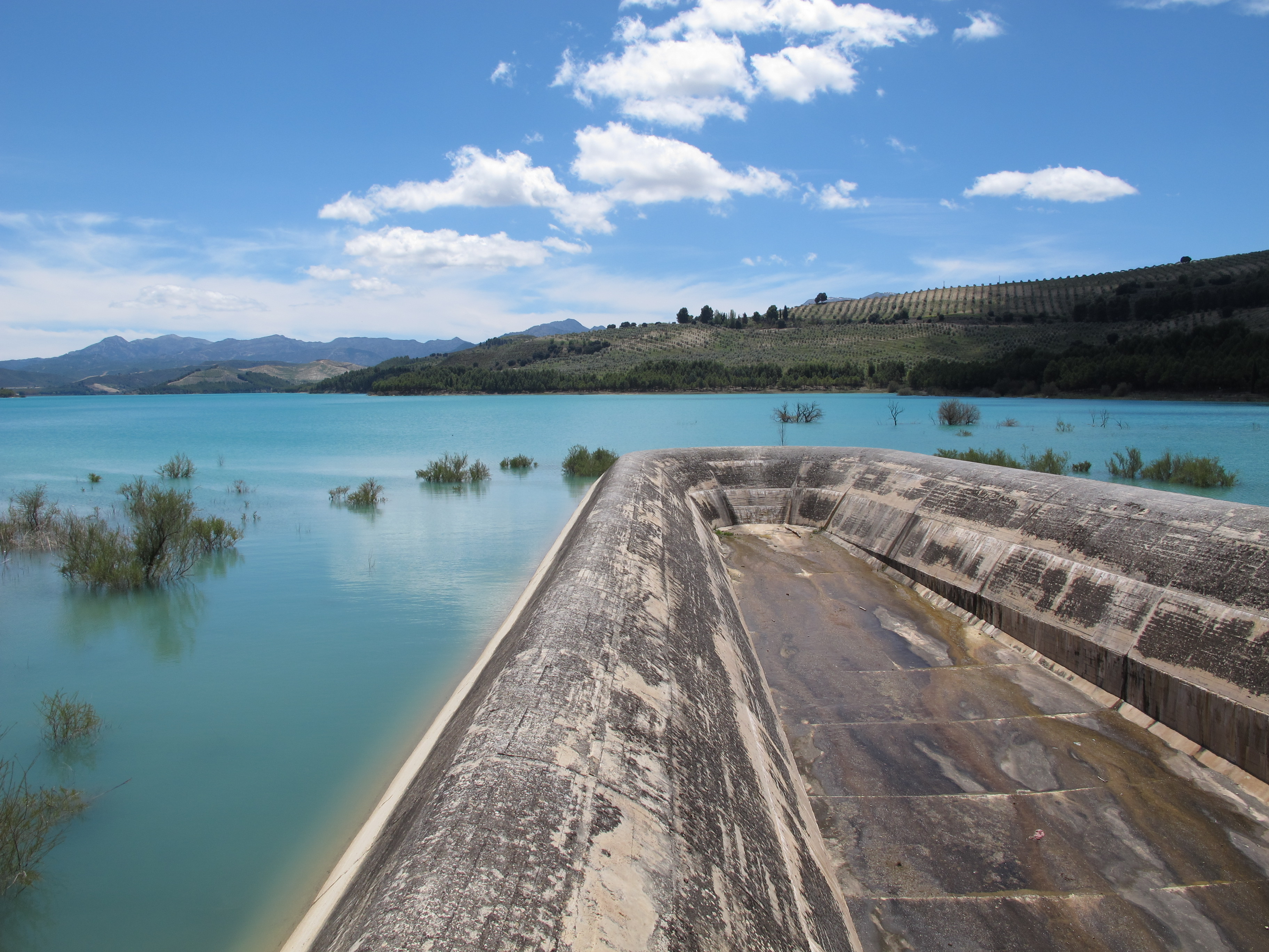 Spillway of the Embalse de los Bermejales Dam